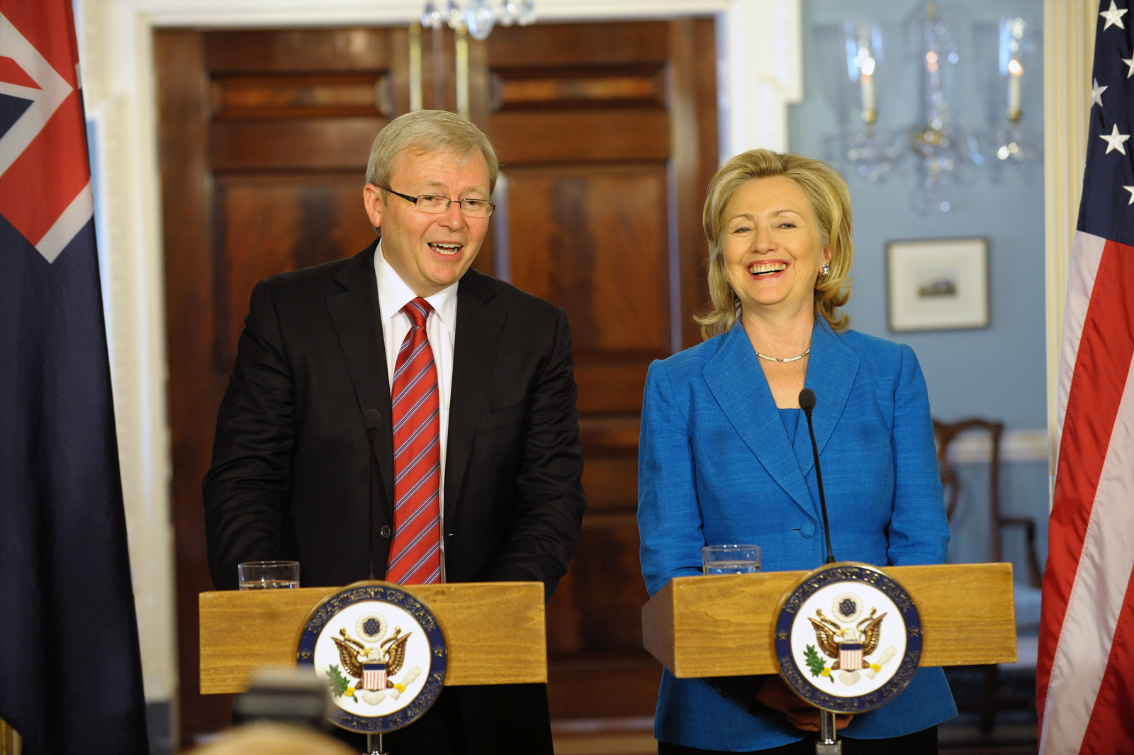 U.S. Secretary of State Hillary Rodham Clinton holds a joint press availability with Australian Foreign Minister Kevin Rudd following their bilateral meeting at the U.S. Department of State in Washington, D.C., on September 17, 2010